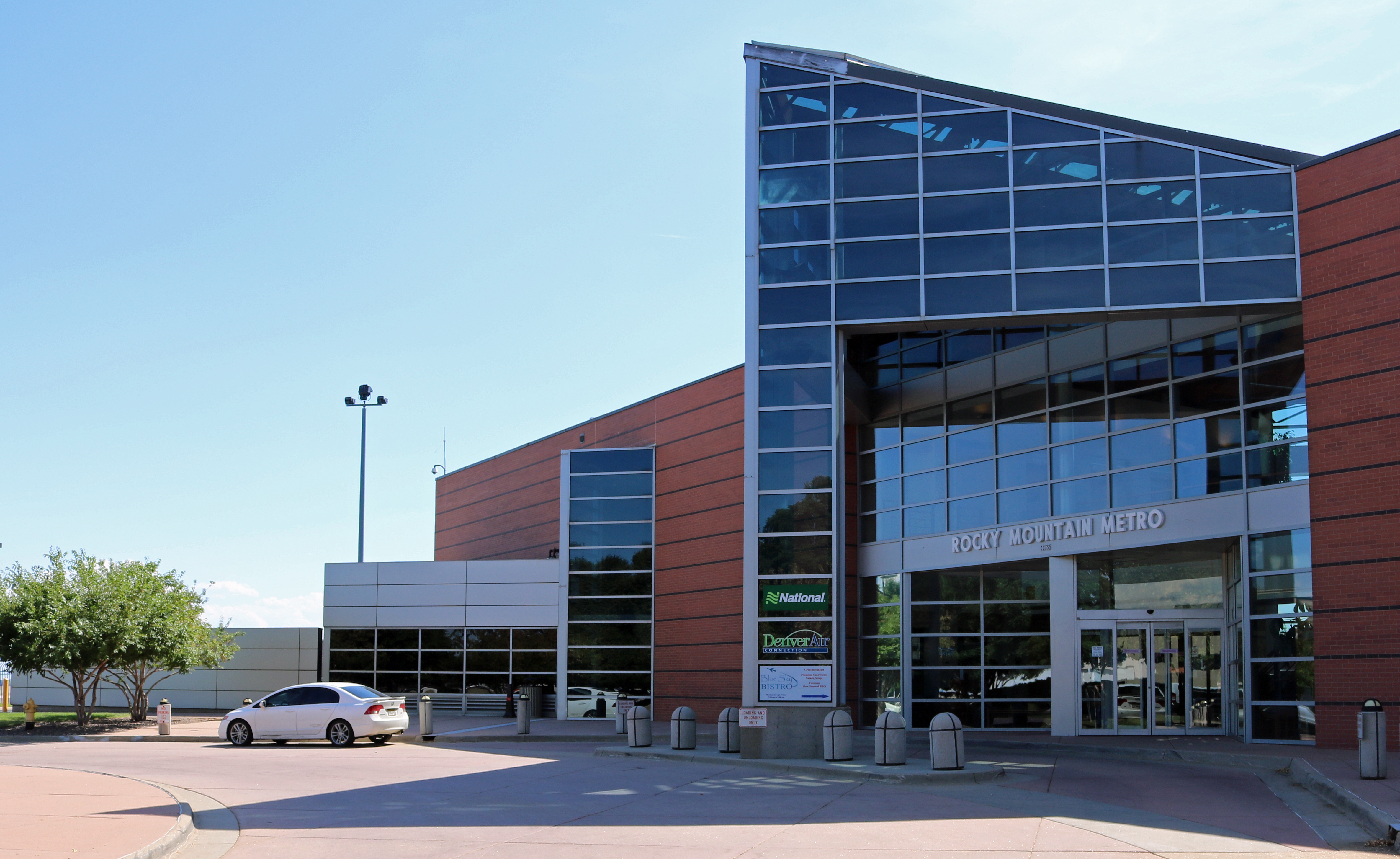 The Rocky Mountain Metropolitan Airport terminal building, located at 11755 Airport Way in Broomfield, Colorado.